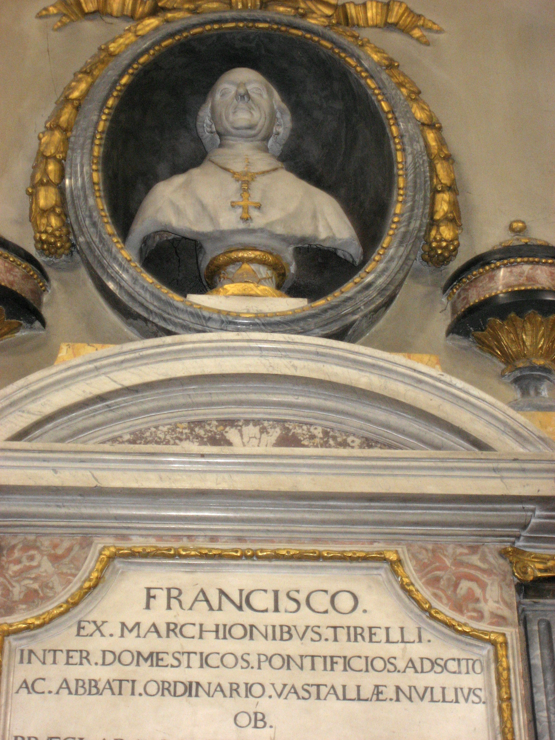 image of the bust of Mons. Francesco Tirelli, abbot in Guastalla during the XVIII° century